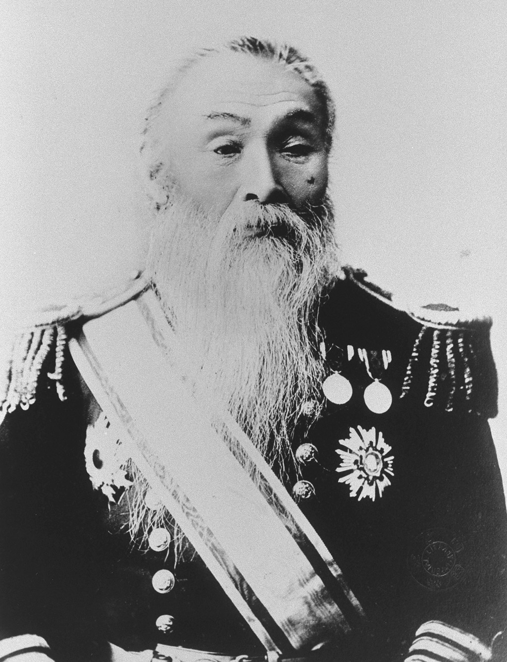 Portrait of Nire Kagenori (仁礼景範, 1831 – 1900)